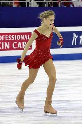 Elena Radionova at the World Championships 2015